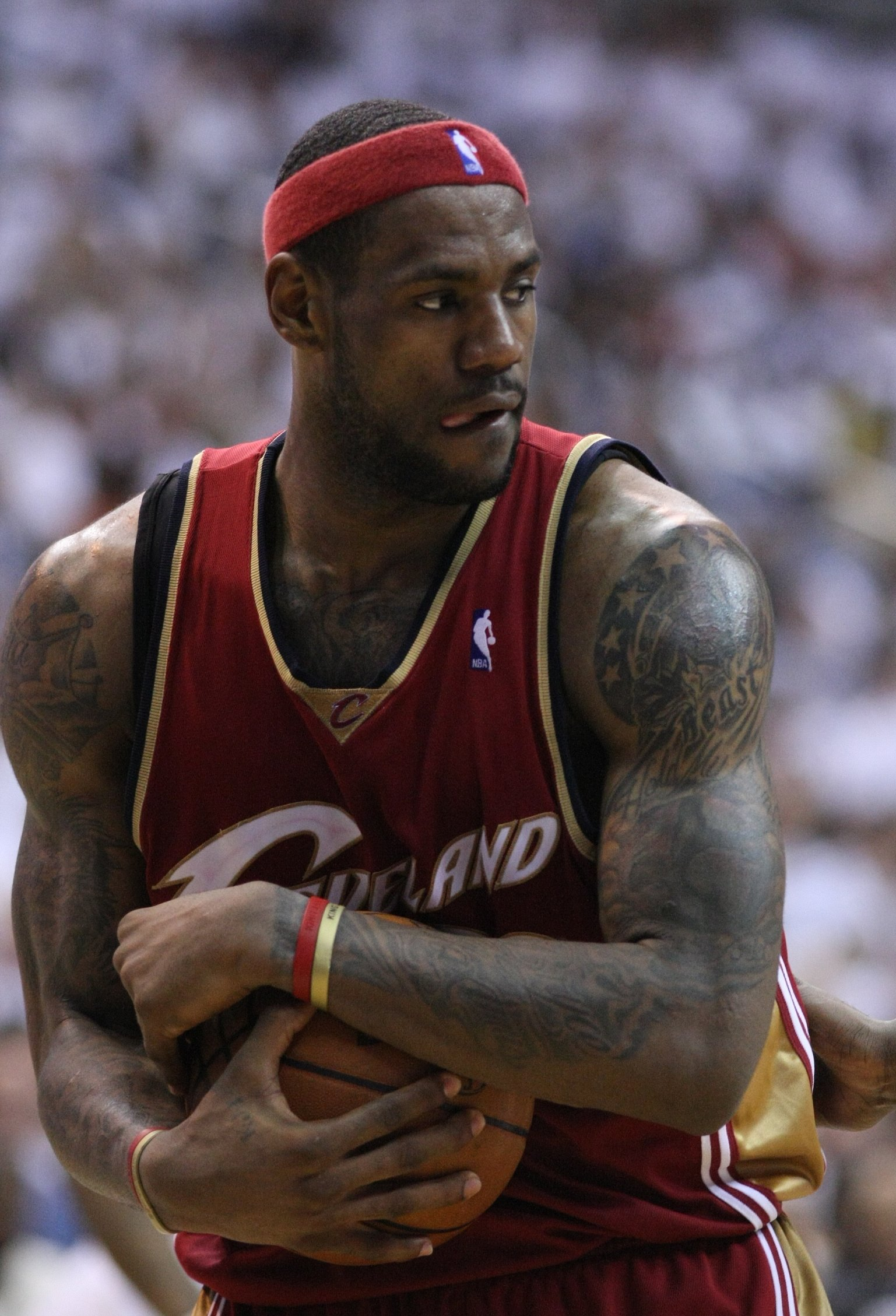 LeBron James, Wizards v/s Cavaliers Playoff Game 4 04/27/08